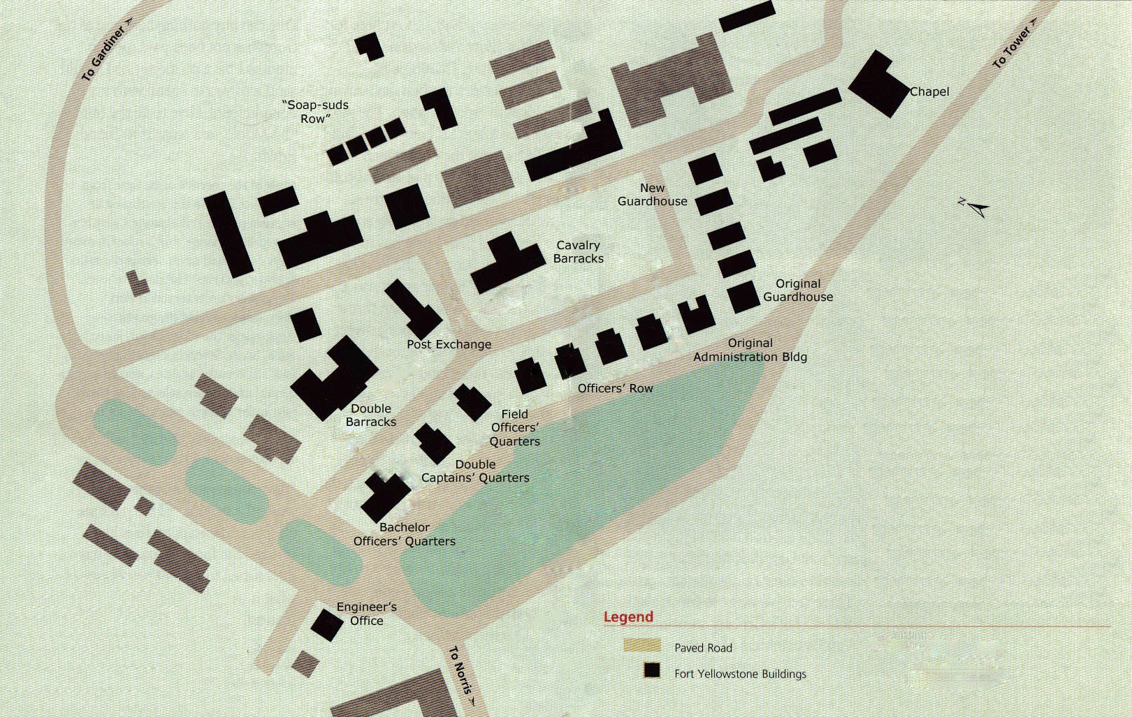 Fort Yellowstone Map, annotated. Annotations based on Kiki Leigh Rydell and Mary Shivers Culpin (2006) Managing the Matchless Wonders-History of Administrative Development in Yellowstone National Park, 1872-1965 YCR-CR-2006-03, National Park Service, Yellowstone Center for Resources [1] Appendices-A-Government-Built Buildings Constructed in Yellowstone National Park 1879–1973 pp.161–174